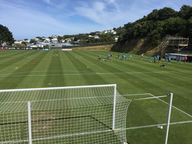 Team Wellington warming up at David Farrington Park